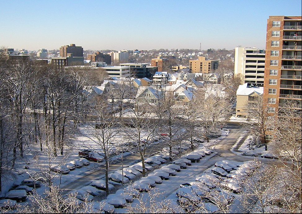 Stamford Bedford Street Shot from Hanover Hall Building